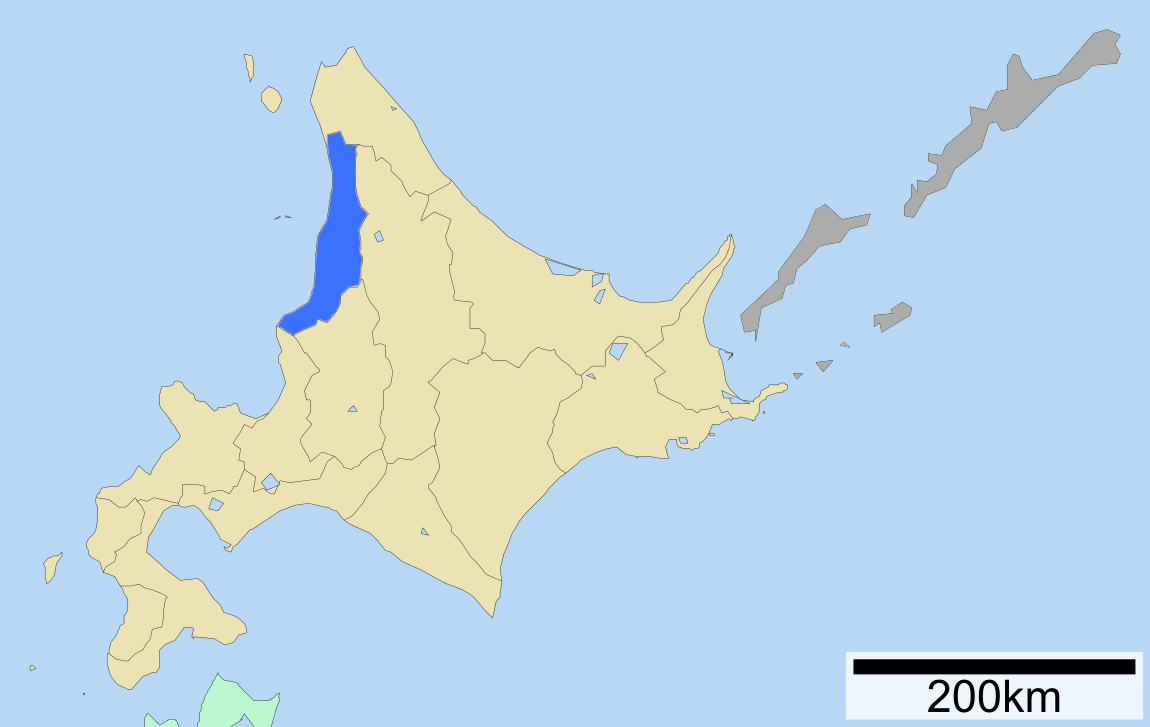 Map of Rumoi Subprefecture